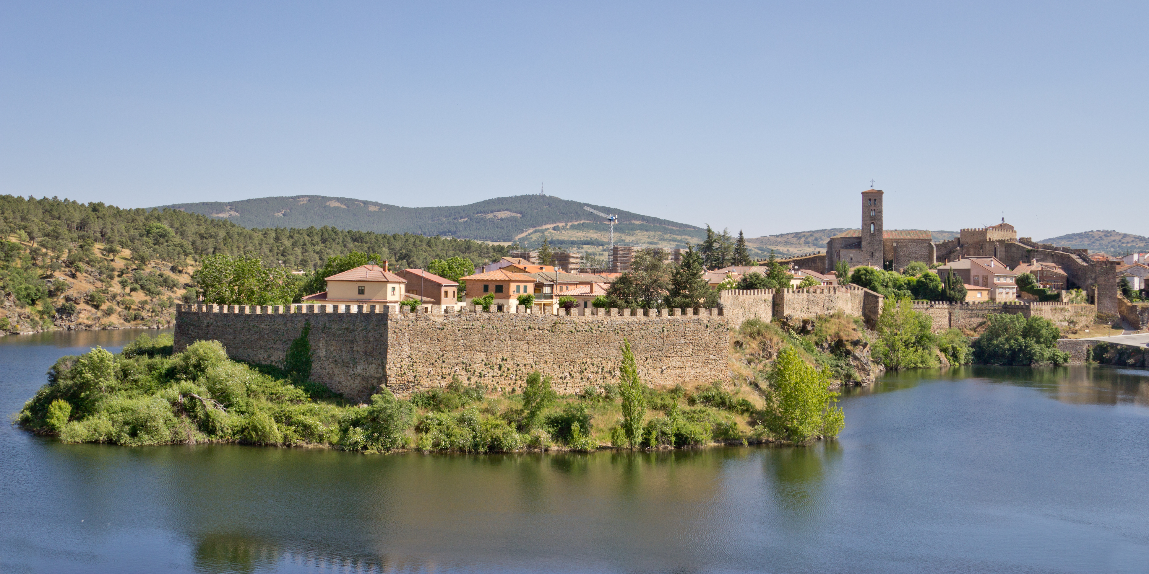 Buitrago del Lozoya, Community of Madrid, Spain.